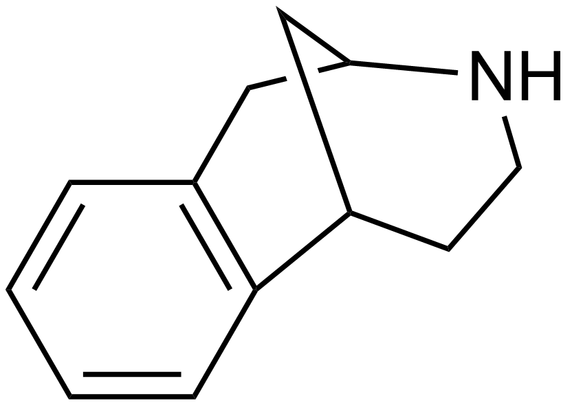 Chemical structure of 6,7-benzomorphan